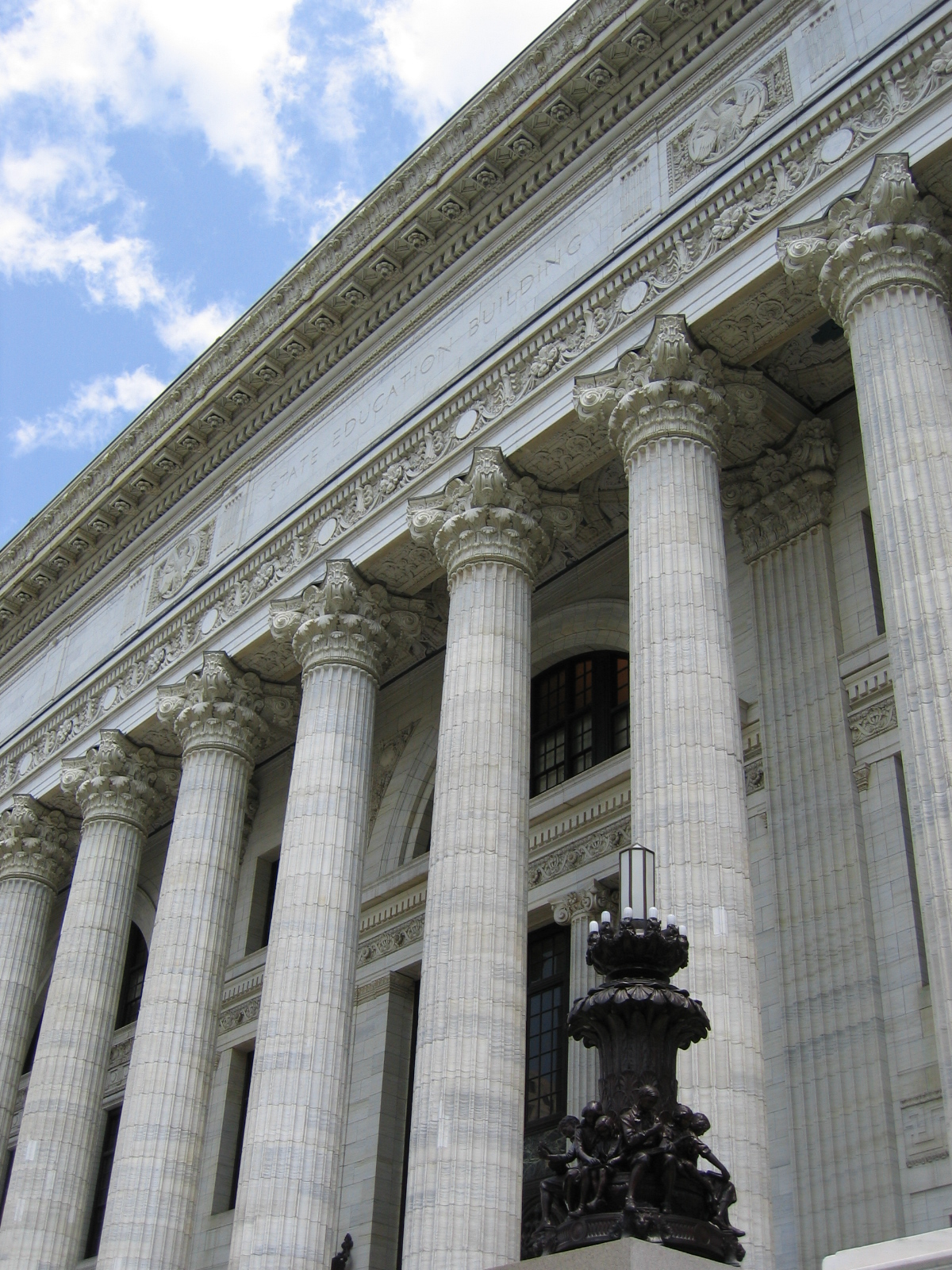 A photograph of the New York State Education Building in Albany. The structure formerly housed the New York State Museum and currently houses offices of the state Education Department. The image was taken with a Canon PowerShot S50 digital camera.